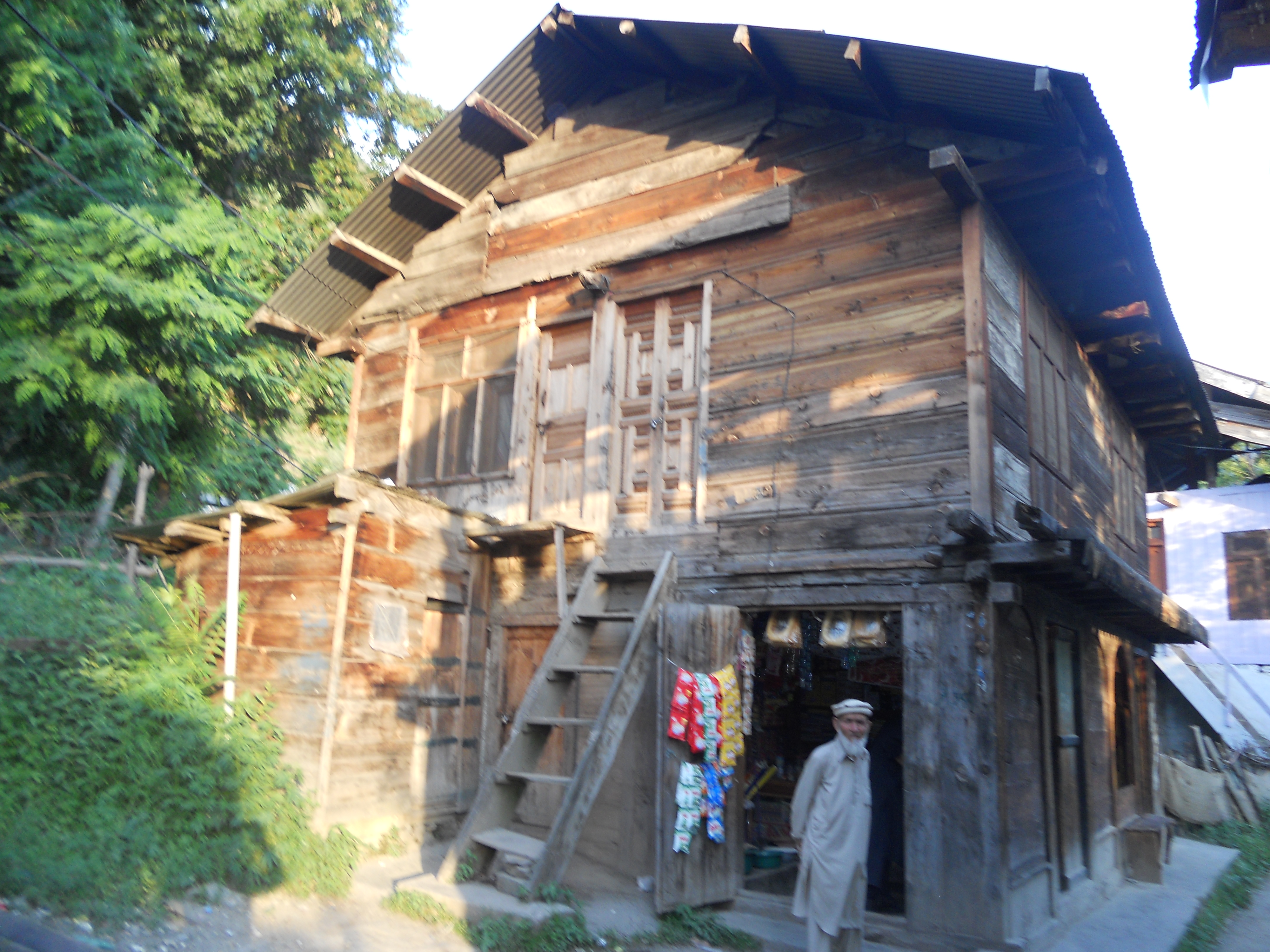 A local shop, Leepa, AJK, Pakistan